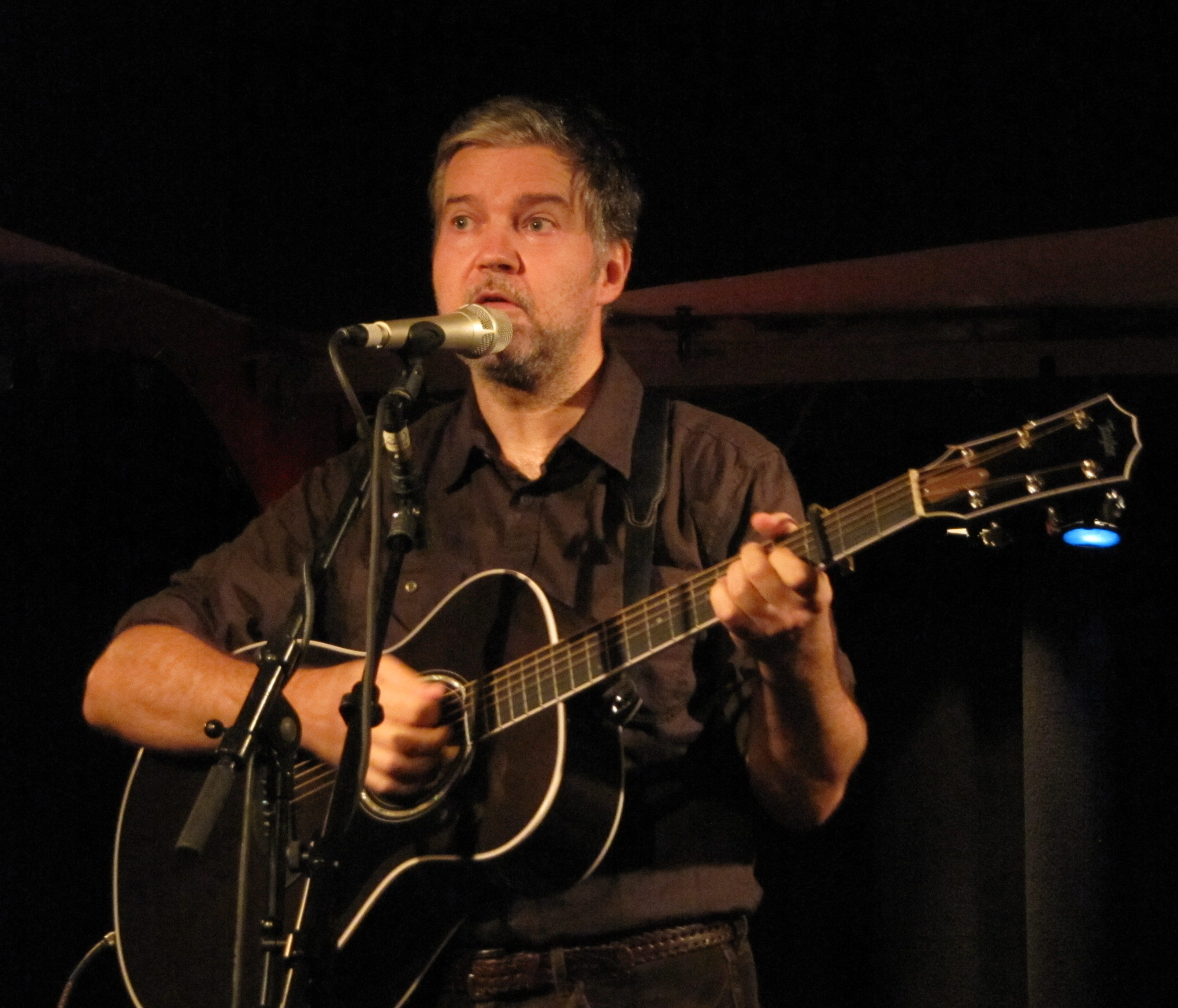 Lloyd Cole live in (Münster, sept 2010)